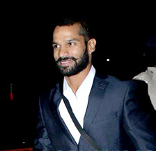 Indian cricketer Shikhar Dhawan